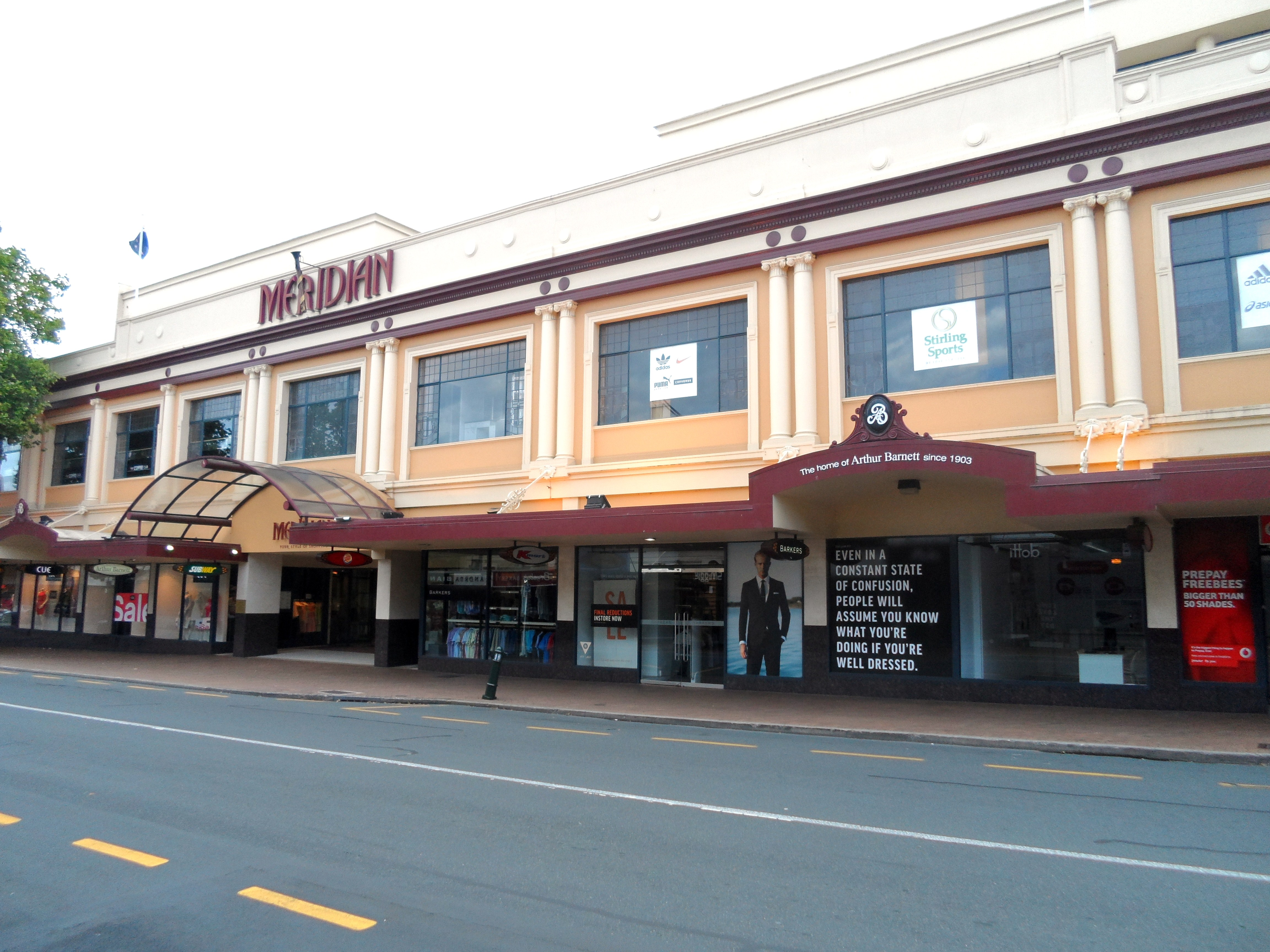 George Street facade of the Meridian Mall, Dunedin. January 2013.